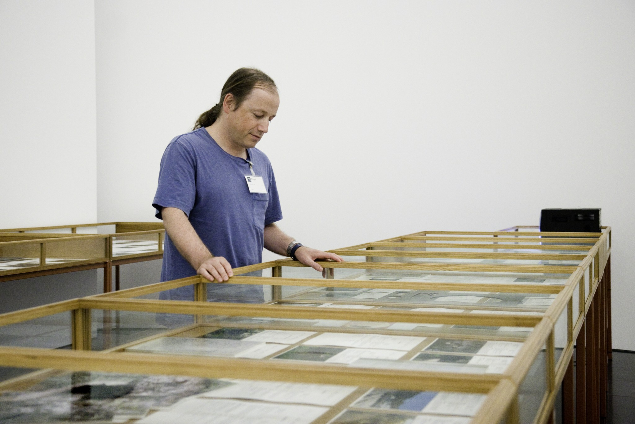 Ibon Aranberri at MACBA during the exhibit Volum